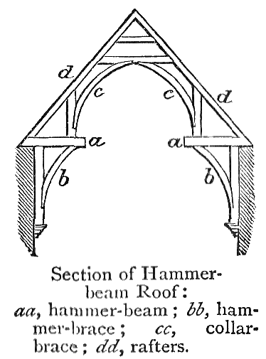 Illustration from 1908 Chambers's Twentieth Century Dictionary. Hammer-beam, n. a horizontal piece of timber in place of a tie-beam at or near the feet of a pair of rafters.